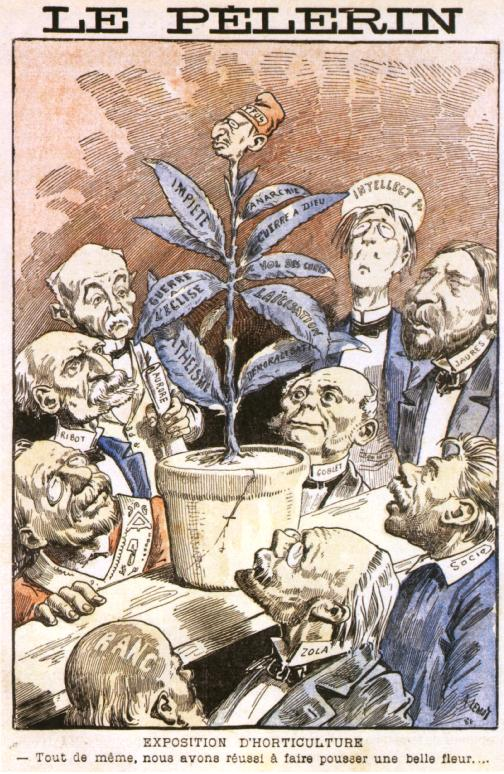 Le Pèlerin, french & catholic newspaper - Affaire Dreyfus